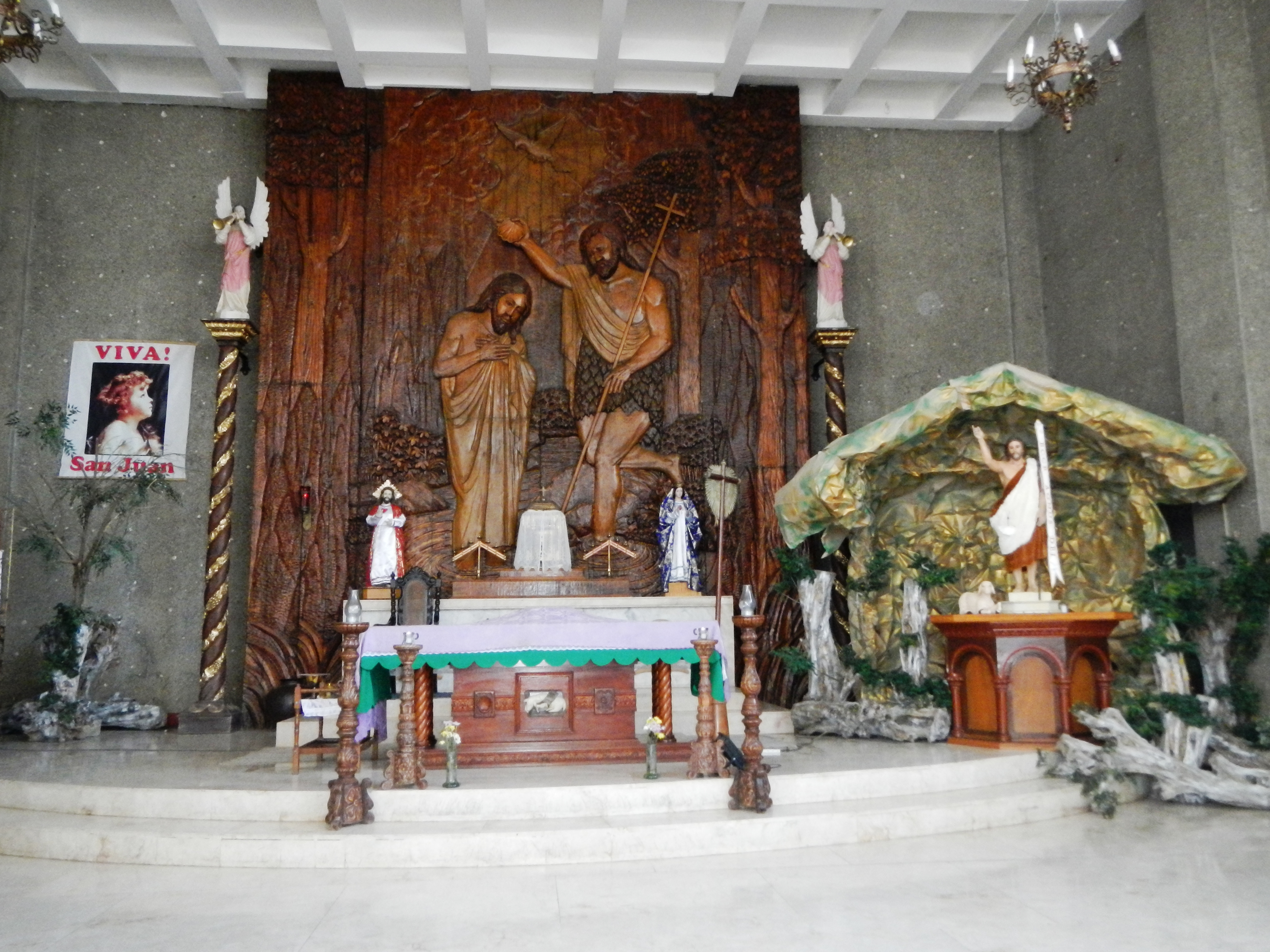 Saint John the Baptist Parish Church Vicariate of St. Anne, Western District Founded 1947 3002 Bulacan, Philippines Titular: St. John the Baptist Feast Day: June 24 Vicar Forane: Father Vicente B. Lina Jr.in Barangay San Juan, Hagonoy, Bulacan, along the interior old Malolos-Hagonoy-Calumpit Provincial Road.